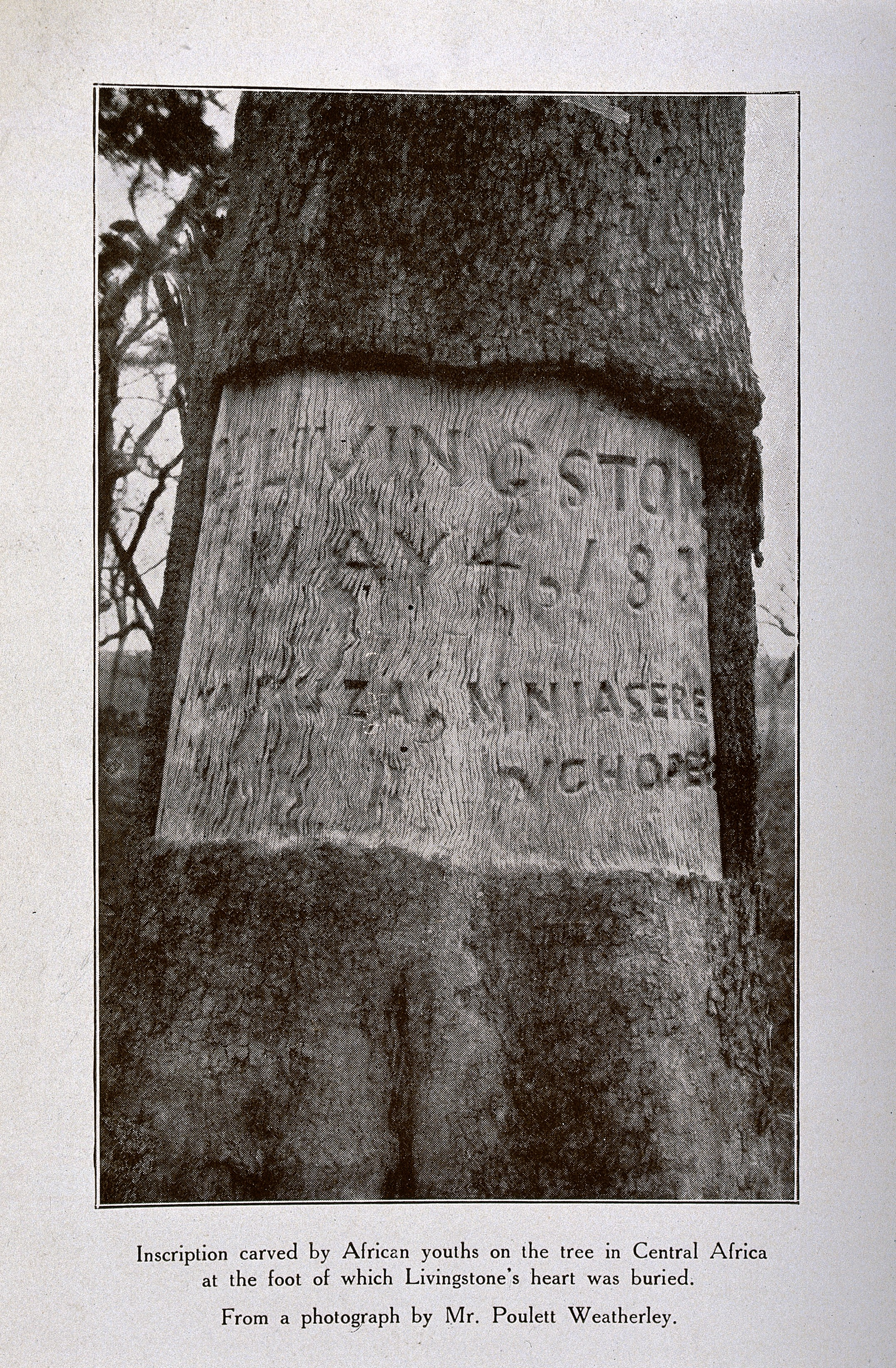 Tree in central Africa where David Livingstone's heart is buried, showing the inscription bearing his name. Copy photograph after original photograph by P. Weatherley. Iconographic Collections Keywords: David Livingstone; Poulett Weatherley